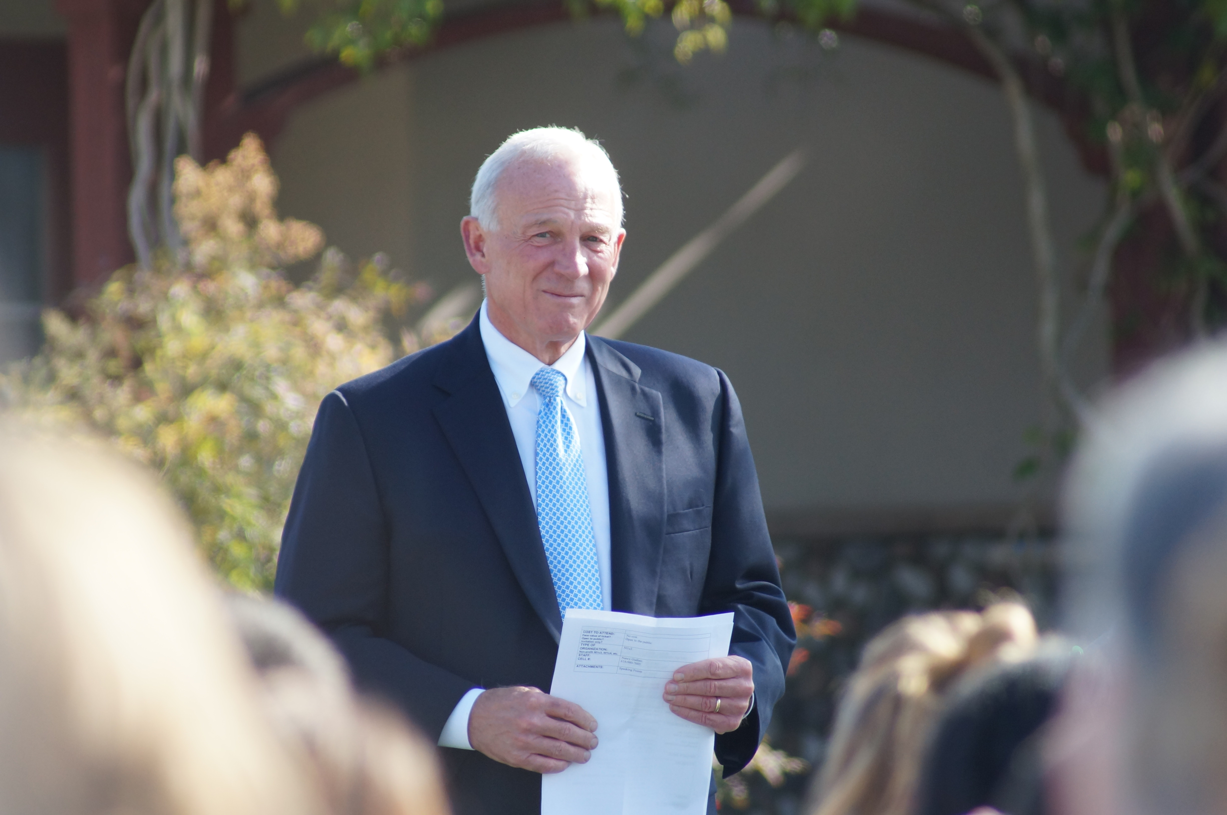 The Mayor of San Diego ready to speak at a graduation.